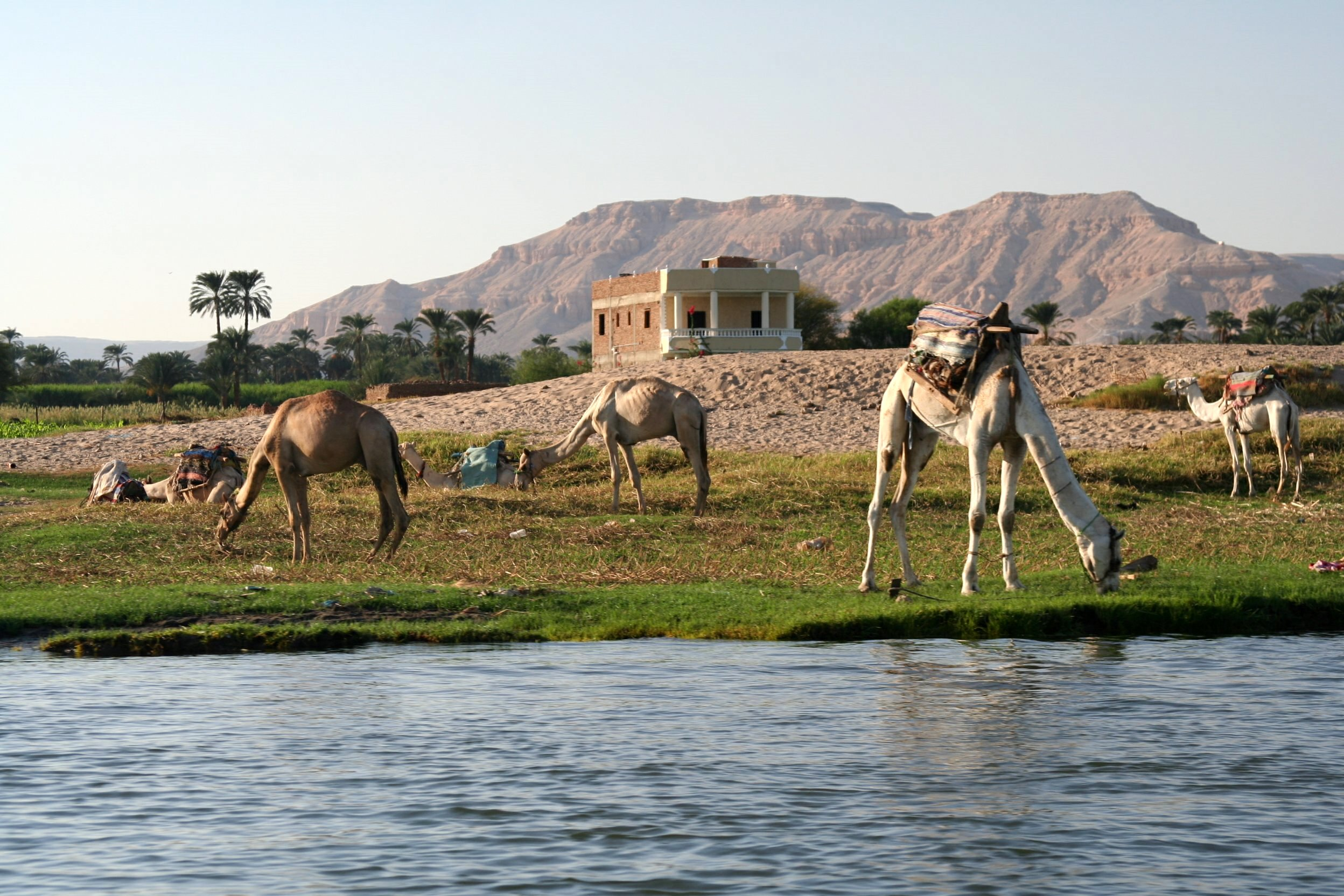 Camels by the side of the Nile at Luxor